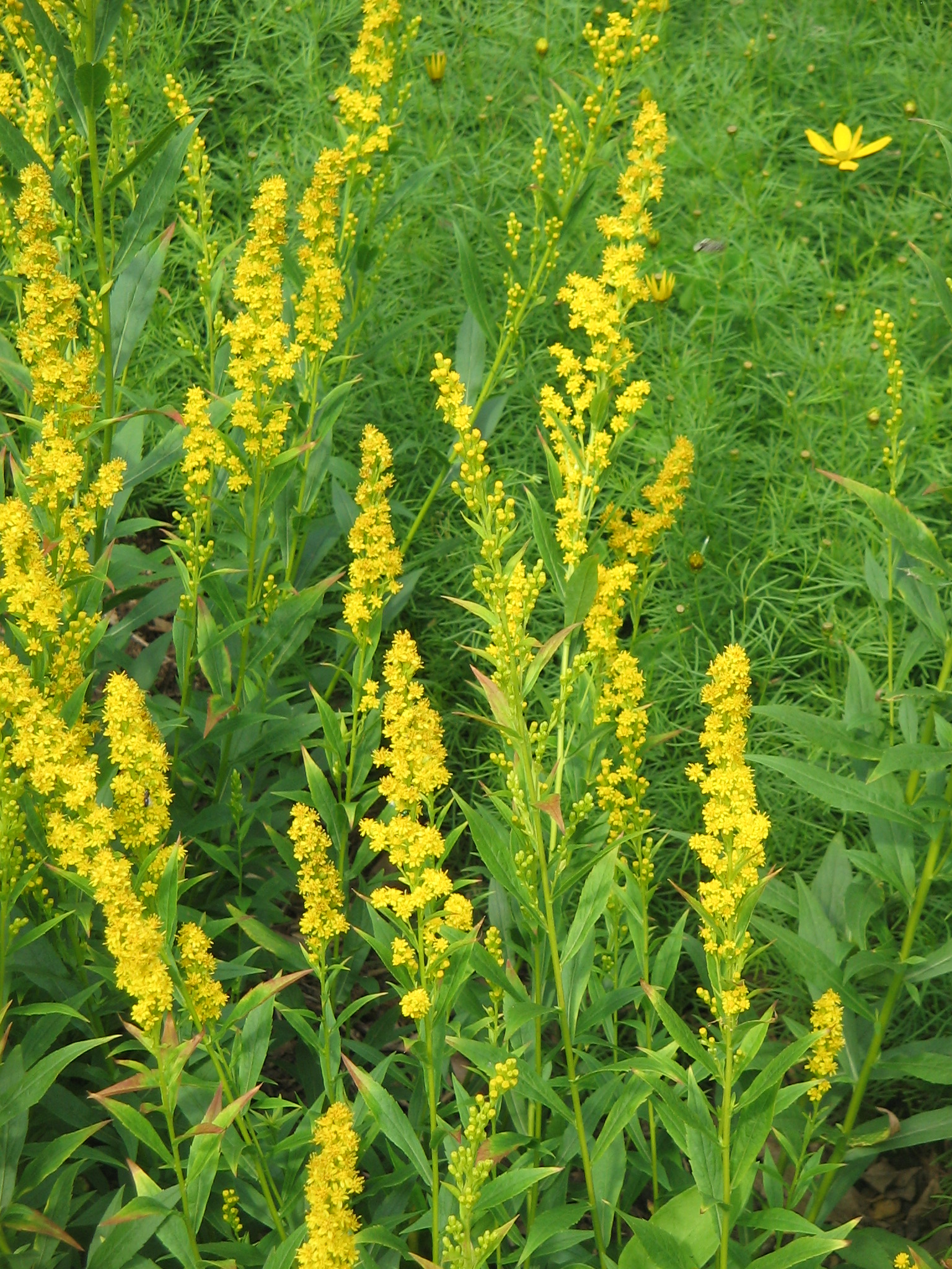 Solidago caesia